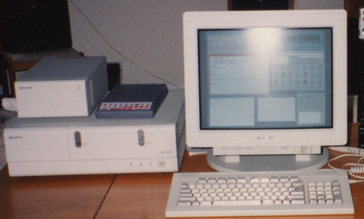 Sony NeWS workstation - Mike Chapman - public domain